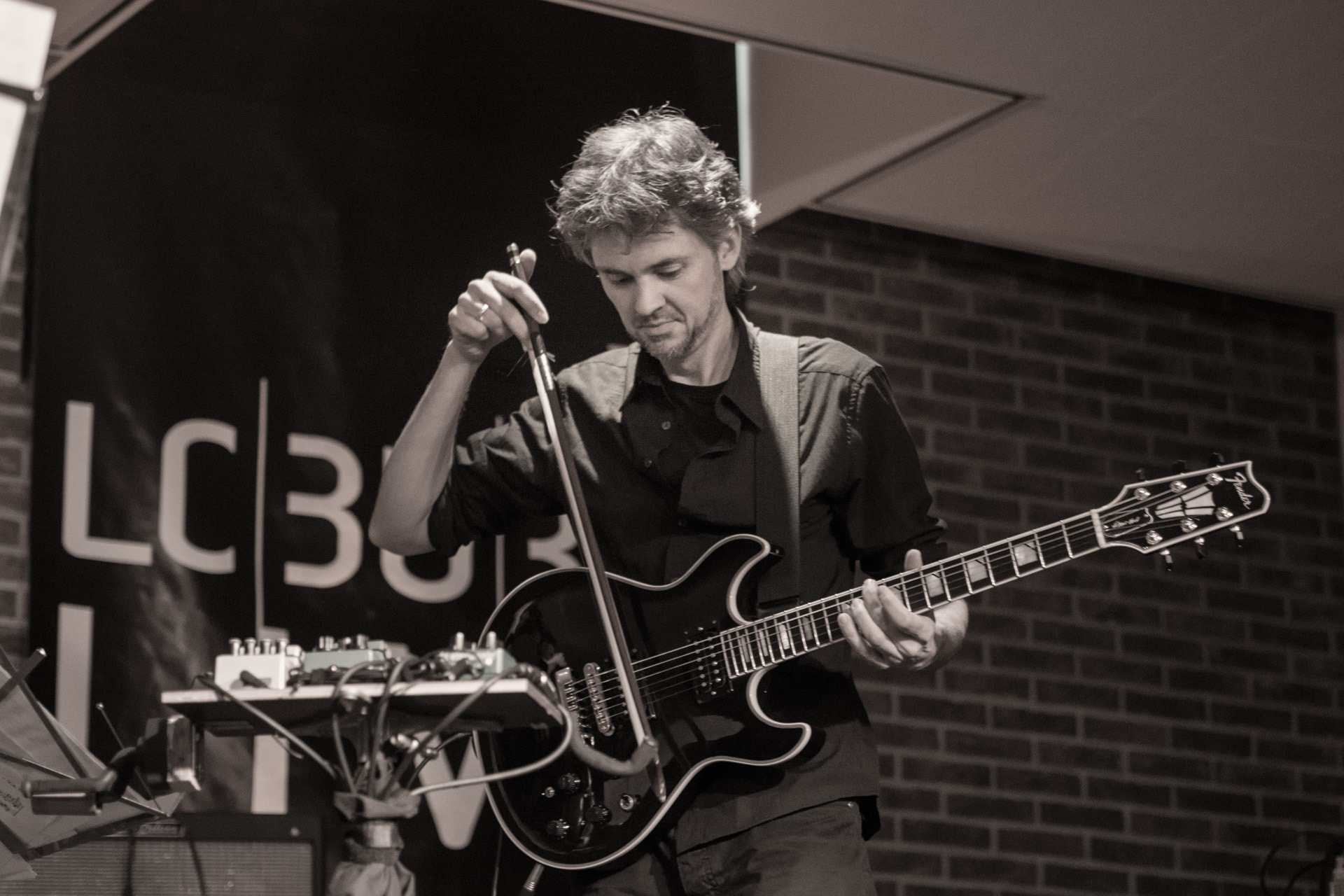 Florian Zenker, playing guitar in Café Loburg, Wageningen, Netherlands on Feb 9, 2014